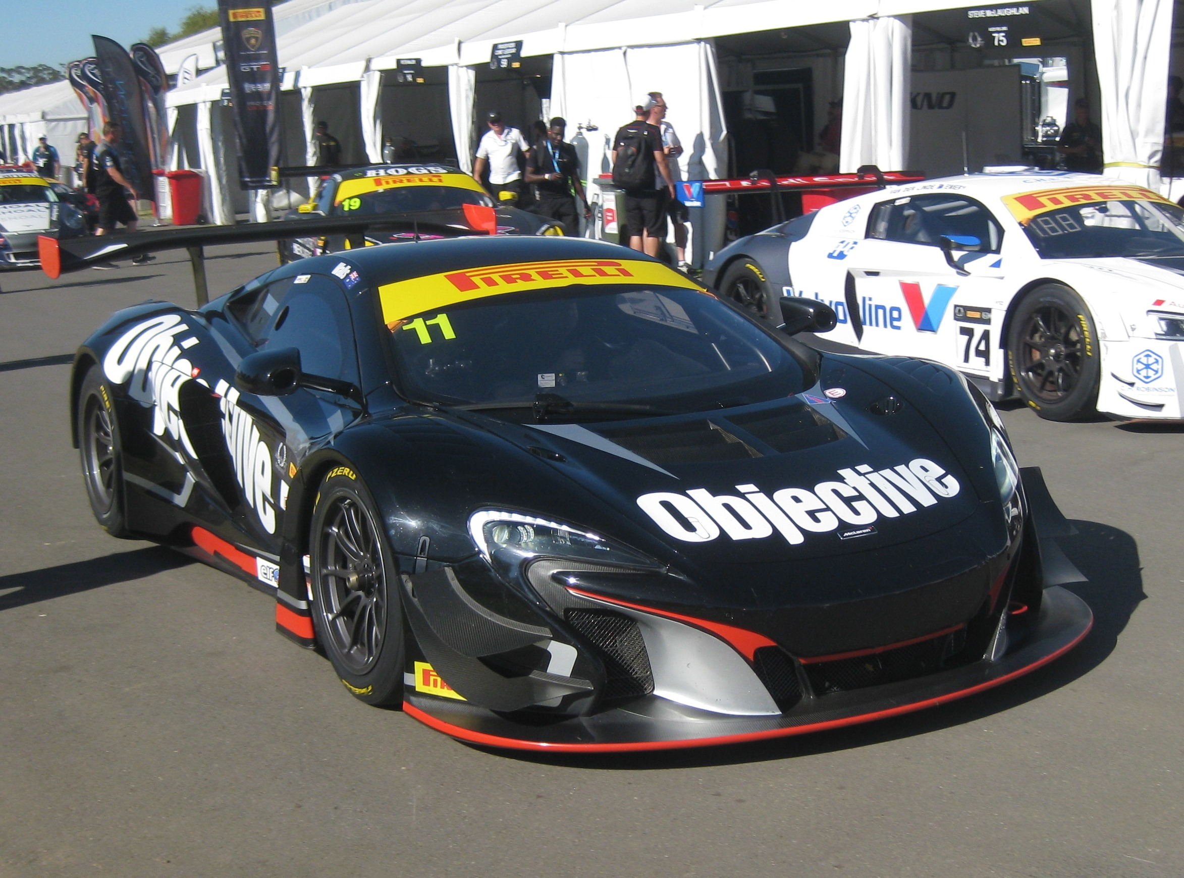 The McLaren 650S GT3 of Tony Walls at the Adelaide Parklands Circuit for the opening round of the 2017 Australian GT Championship.